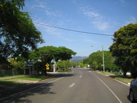 Blackall Street looking west